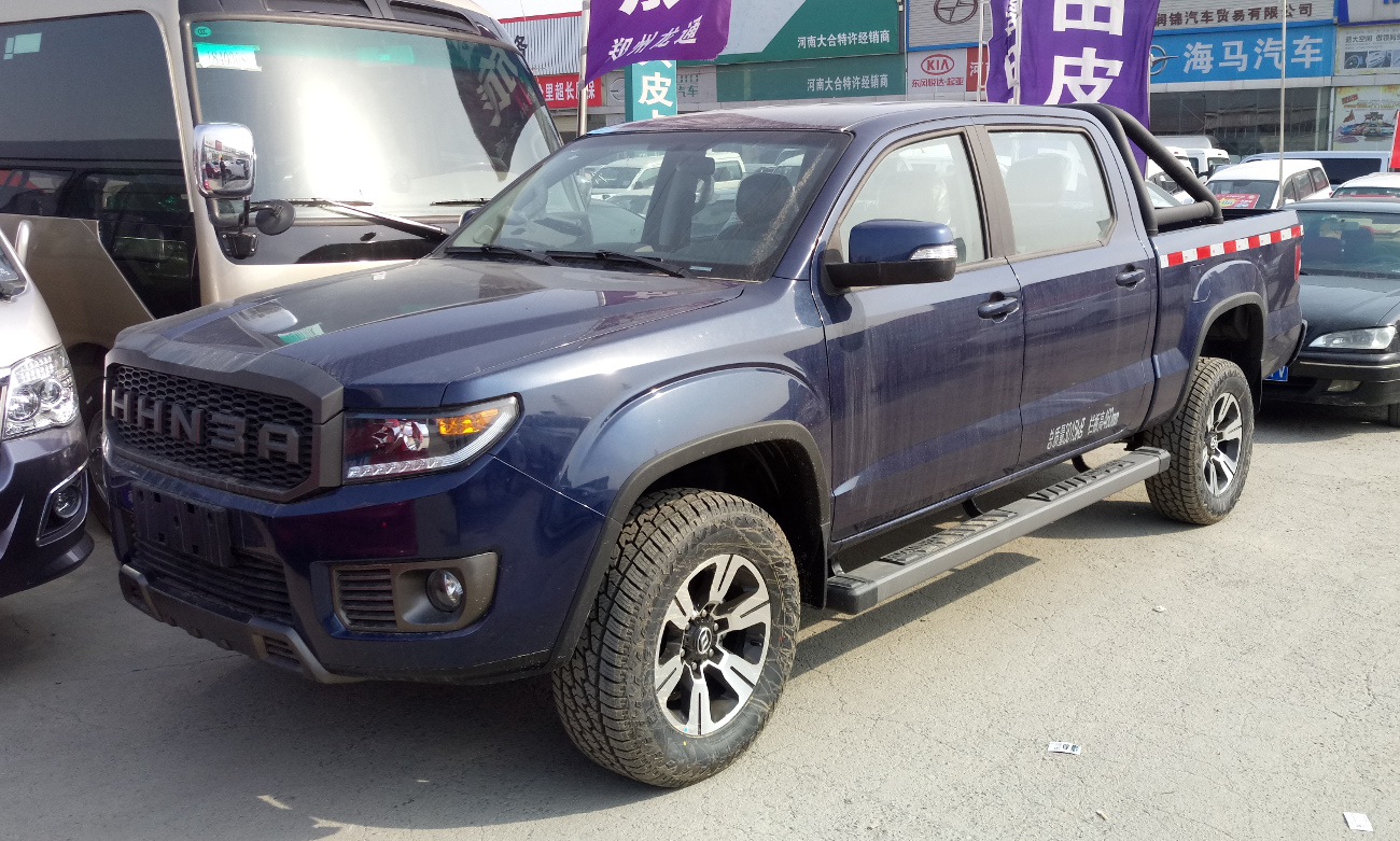 Huanghai N3A photographed in Zhengzhou, Henan province, China.